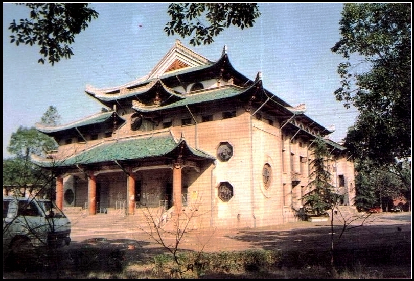 This is a picture of Grand Auditorium at Hunan University, which was designed by Liu Shiying, the founder of modern architectural education in China.